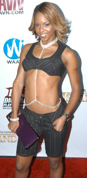 Marie Luv at Digital Playground party for movie Island Fever 4, September 17 2006